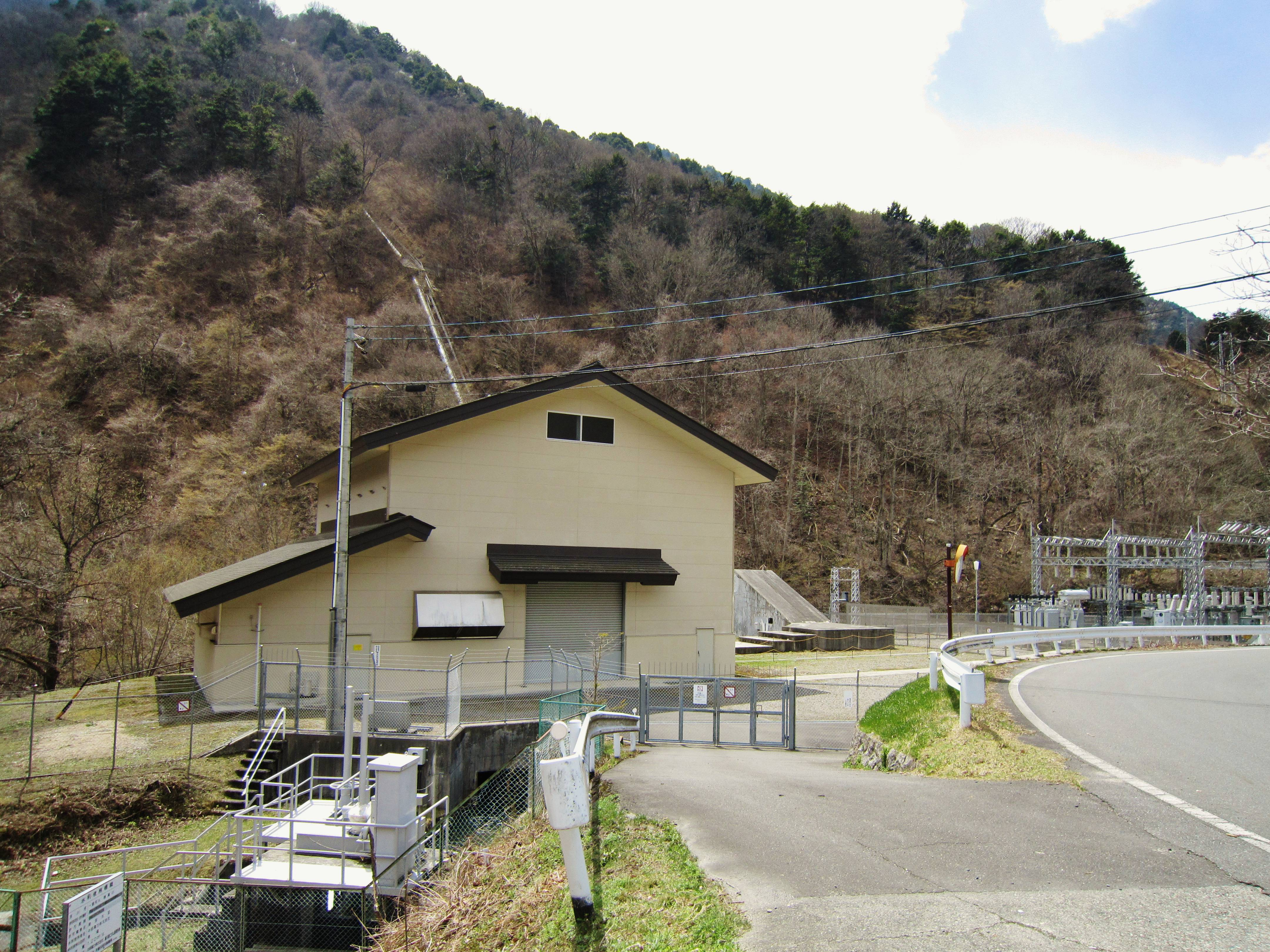 Nakabusa IV power station.